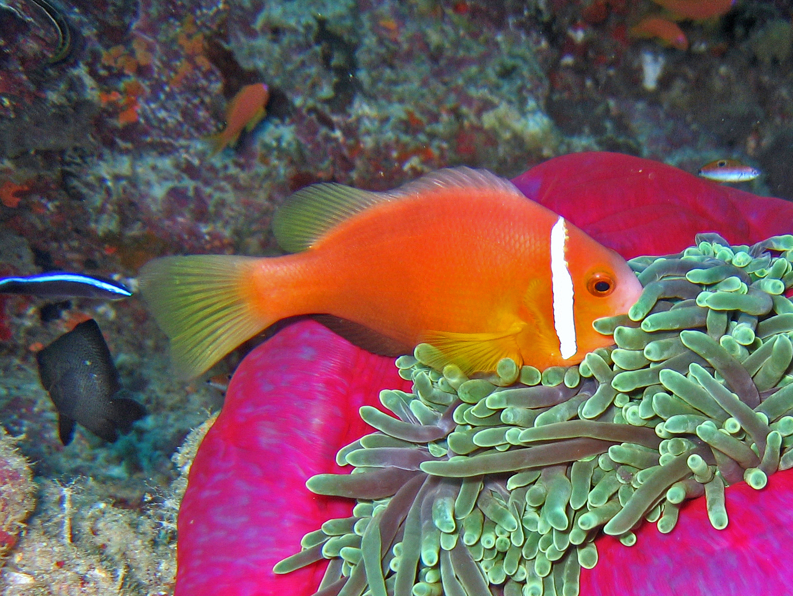 Amphiprion nigripes on the sea anemone Heteractis magnifica